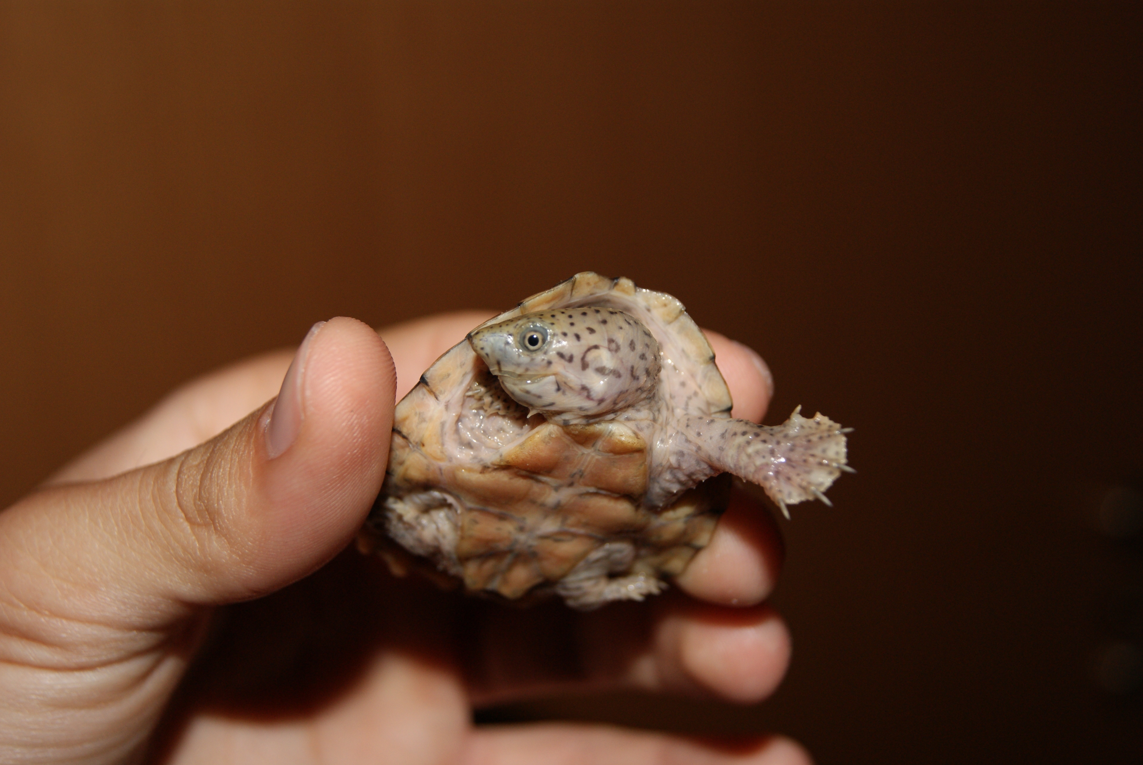 Young Sternotherus Carinatus